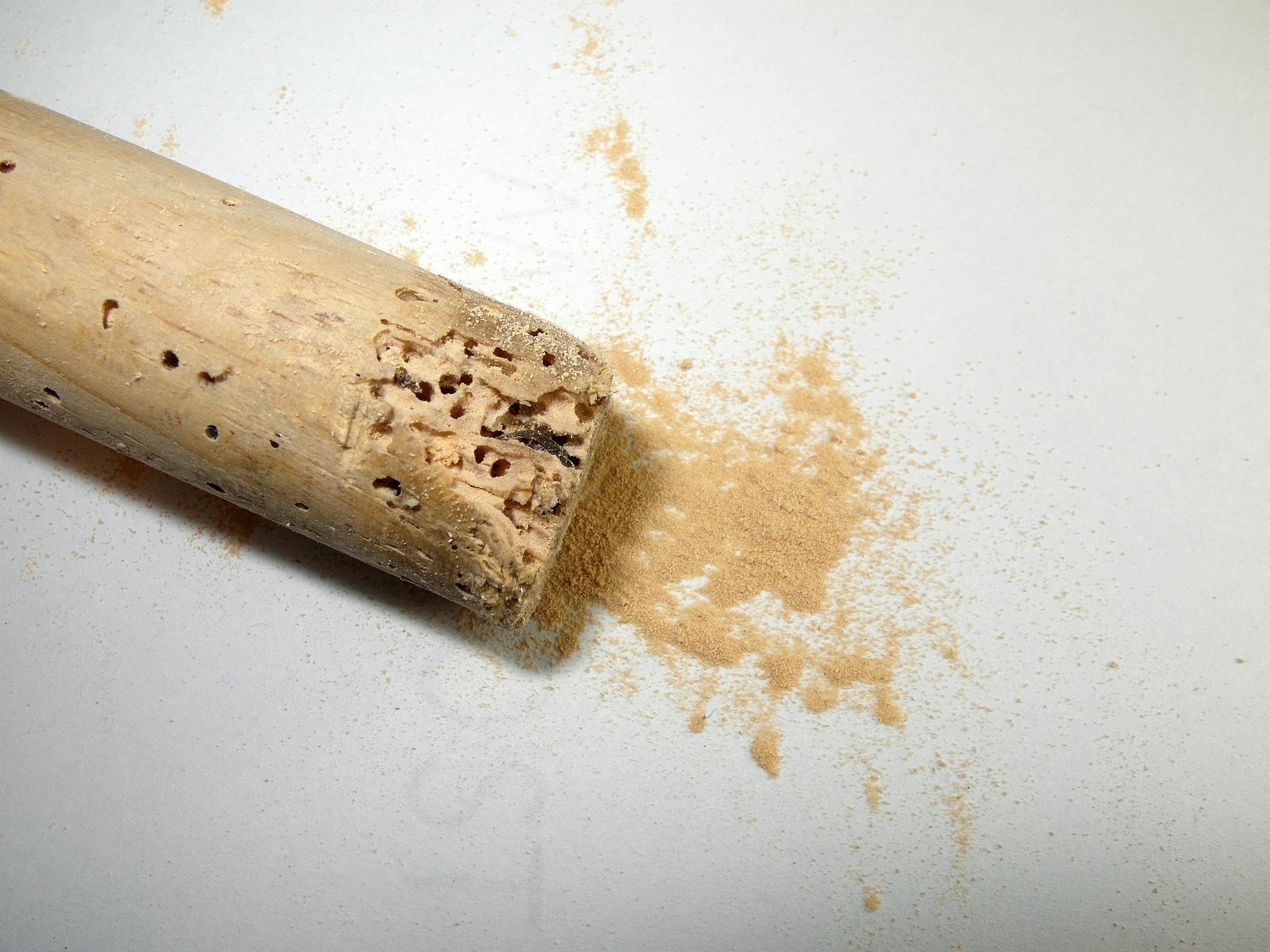 Upper end of a wooden broomstick eroded by woodboring beetles, with fresh wood flour